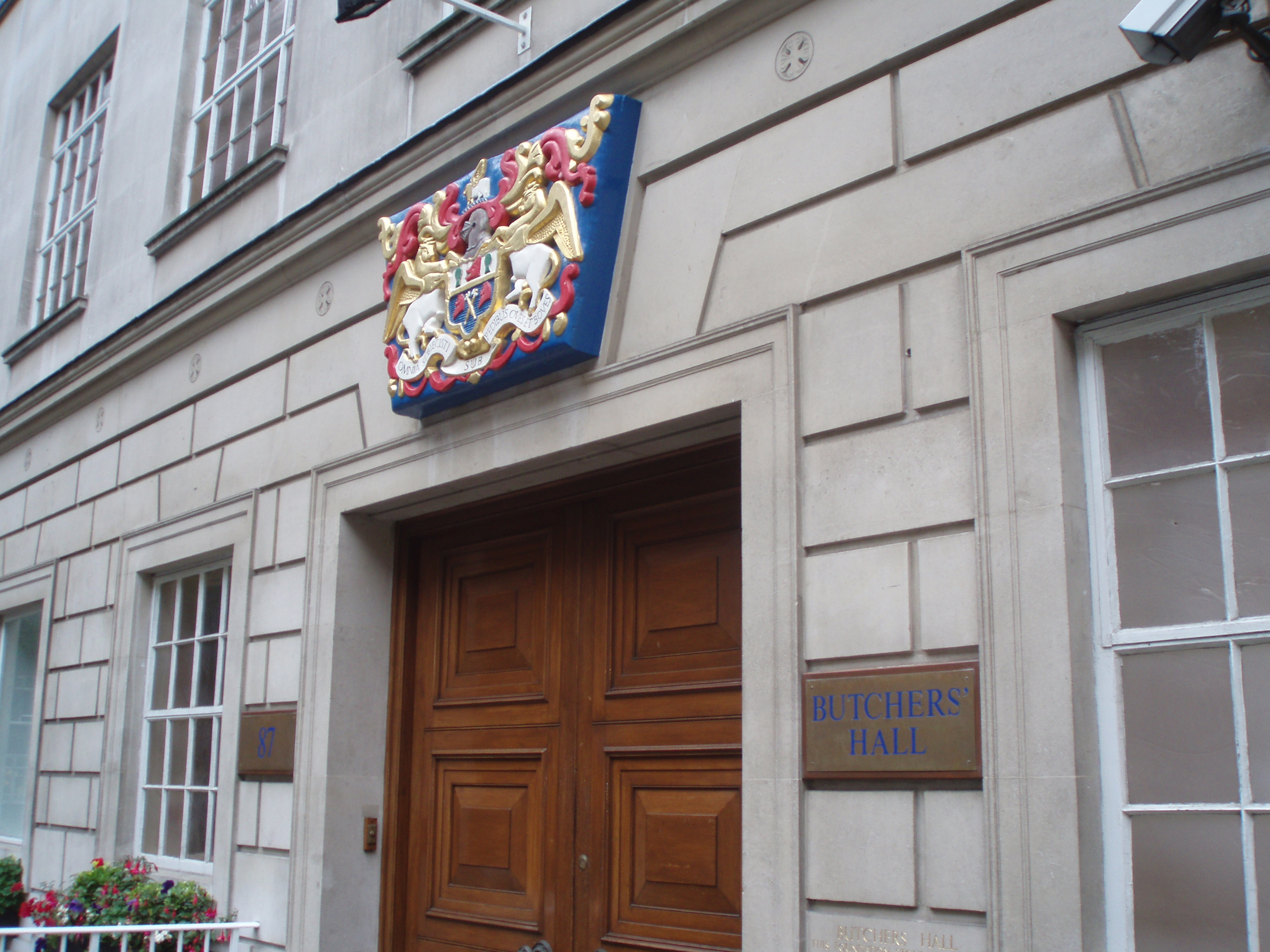 Photo taken on 23rd of August 2007